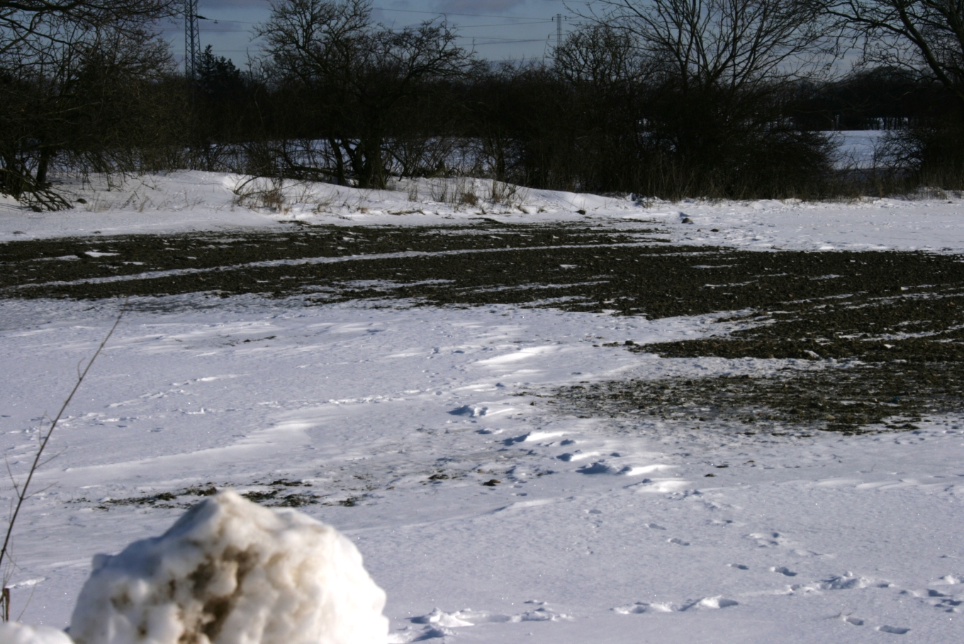 Even under almost two consecutive months of frost the snow is disappearing by sublimation.